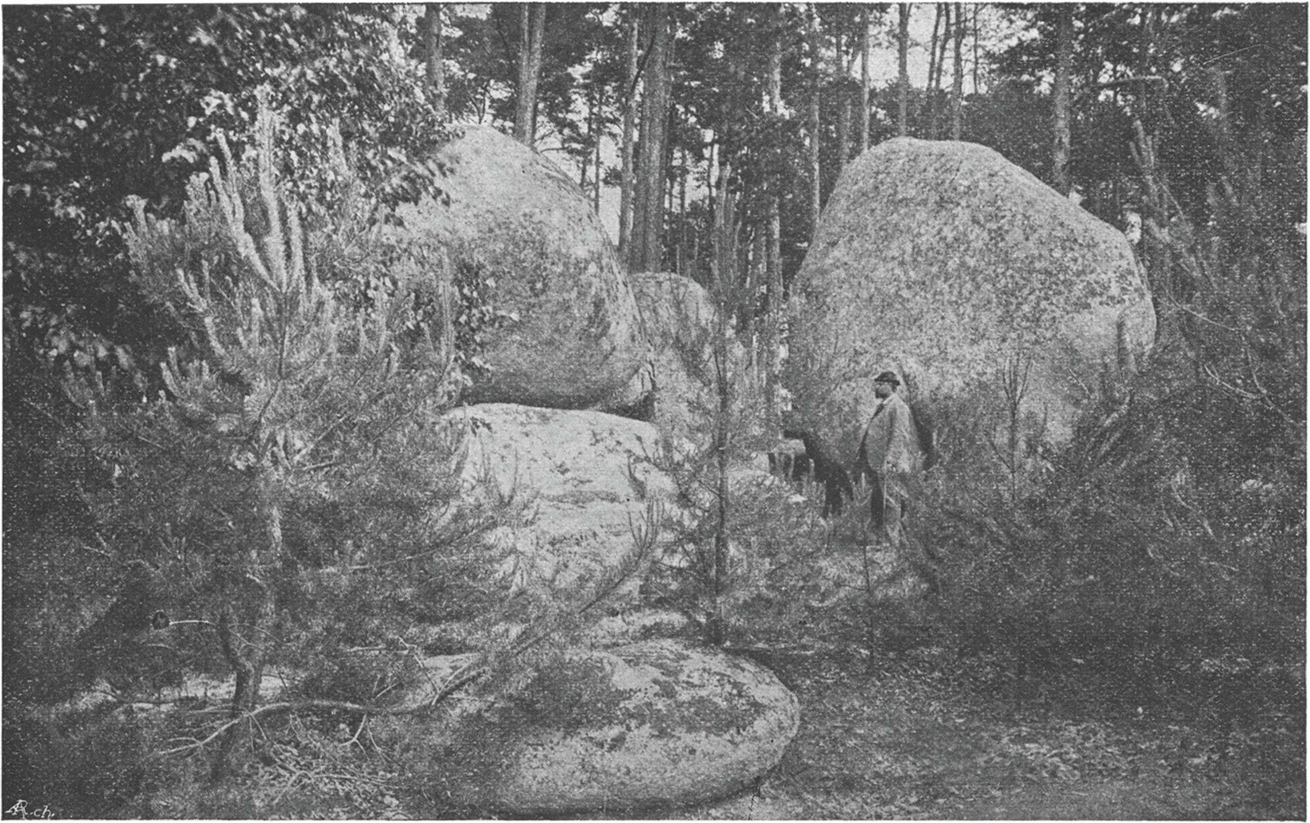 Natural monument Syenitové skály u Pococouva near Trnava, Třebíč District, Czech republic.